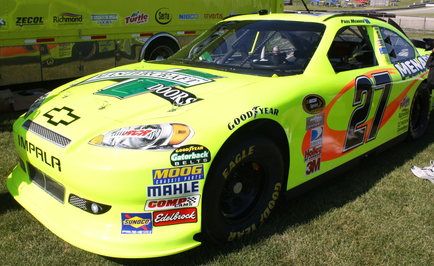 The Chevrolet Impala stock car that Paul Menard raced in NASCAR.